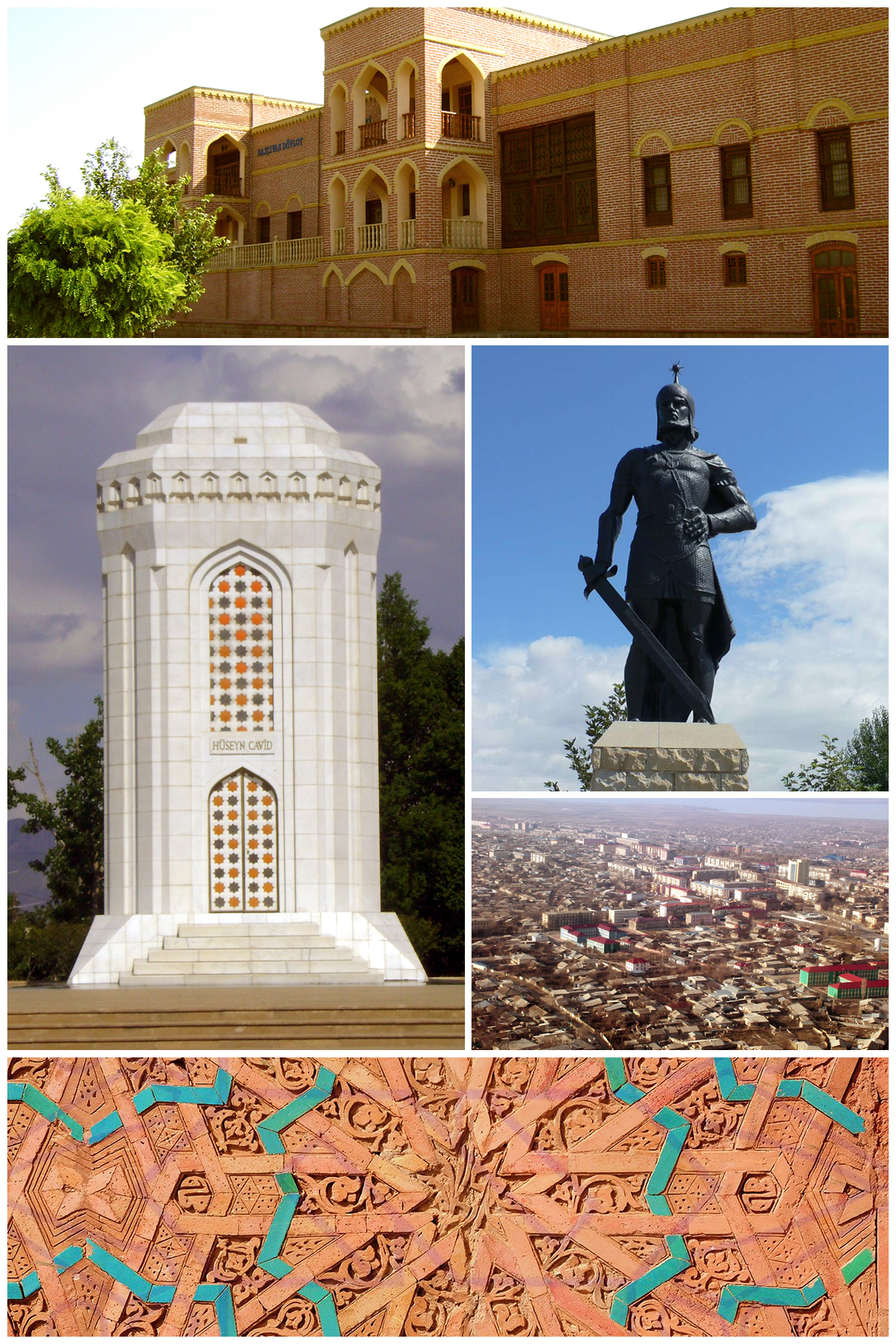 Montage of pictures of Nakhchivan used for the specific article. Composition of these pictures: File:Papak Xorramdin.jpg File:Huseyn Javid Mausoleum at Nakhchivan.jpg File:Nakhchivan khan palace7.JPG File:Facade of Mominakhatun mausoleum, XII century.jpg File:City of naxcivan view from plane.jpg